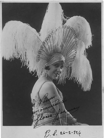 Gloria Guzmán 1926